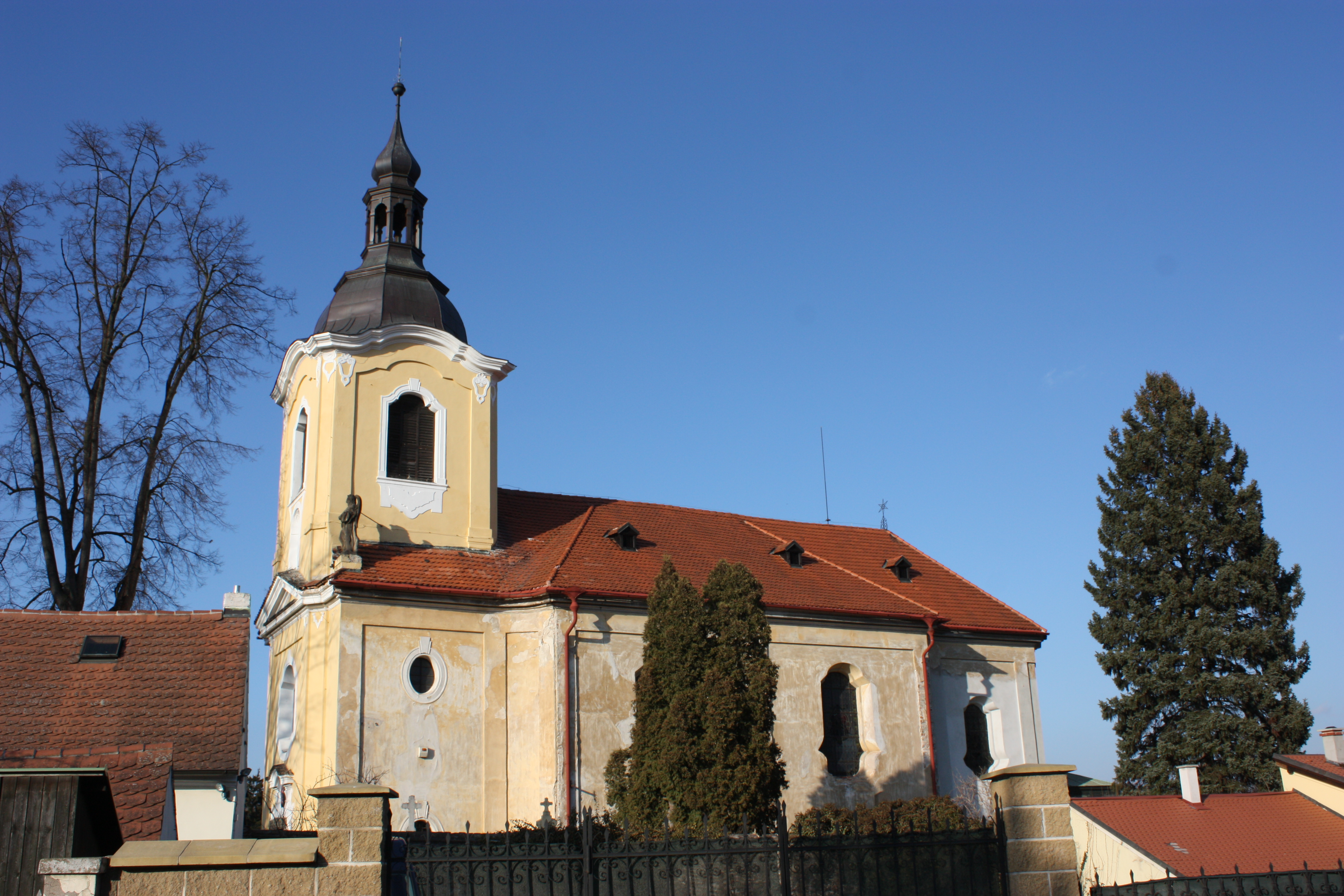 Church of St. Maurice in Řevnice, Czechia.